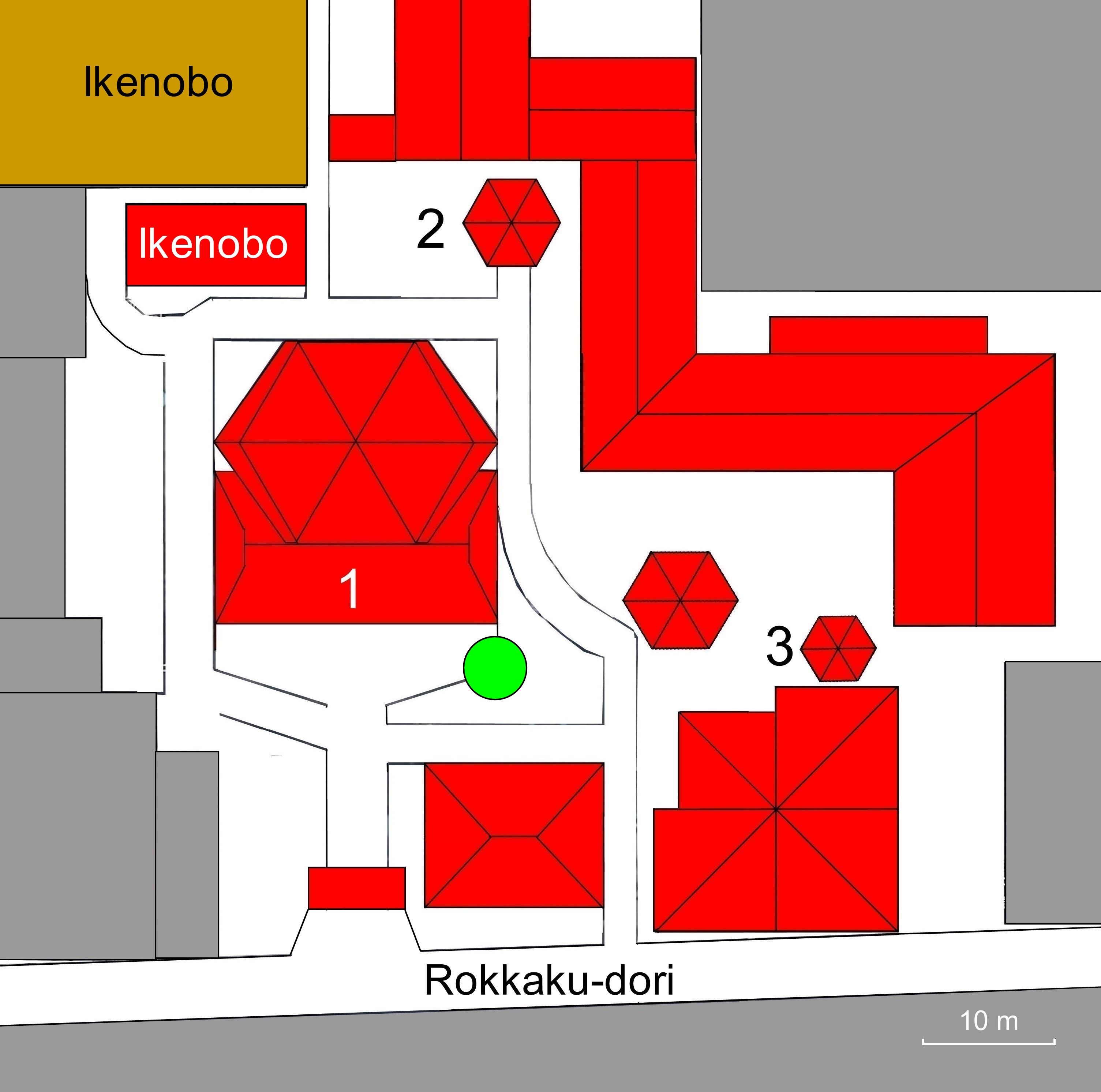 Layout fo Rokkaku-dô (Kyôto)